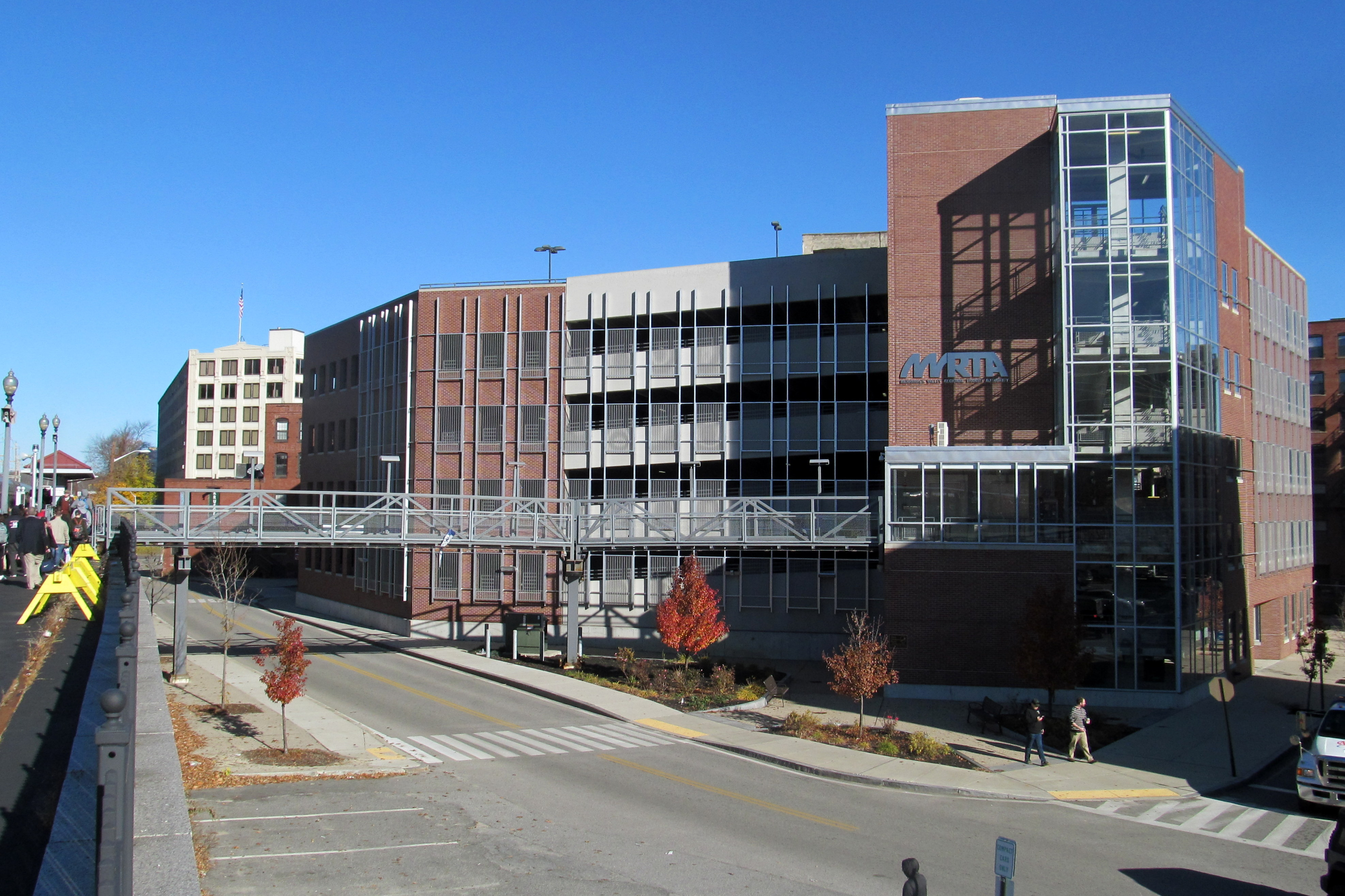 MVRTA garage at Haverhill station in November 2016